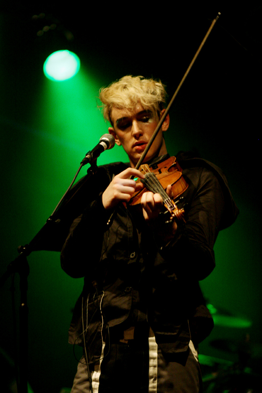 Patrick Wolf at Highline Ballroom